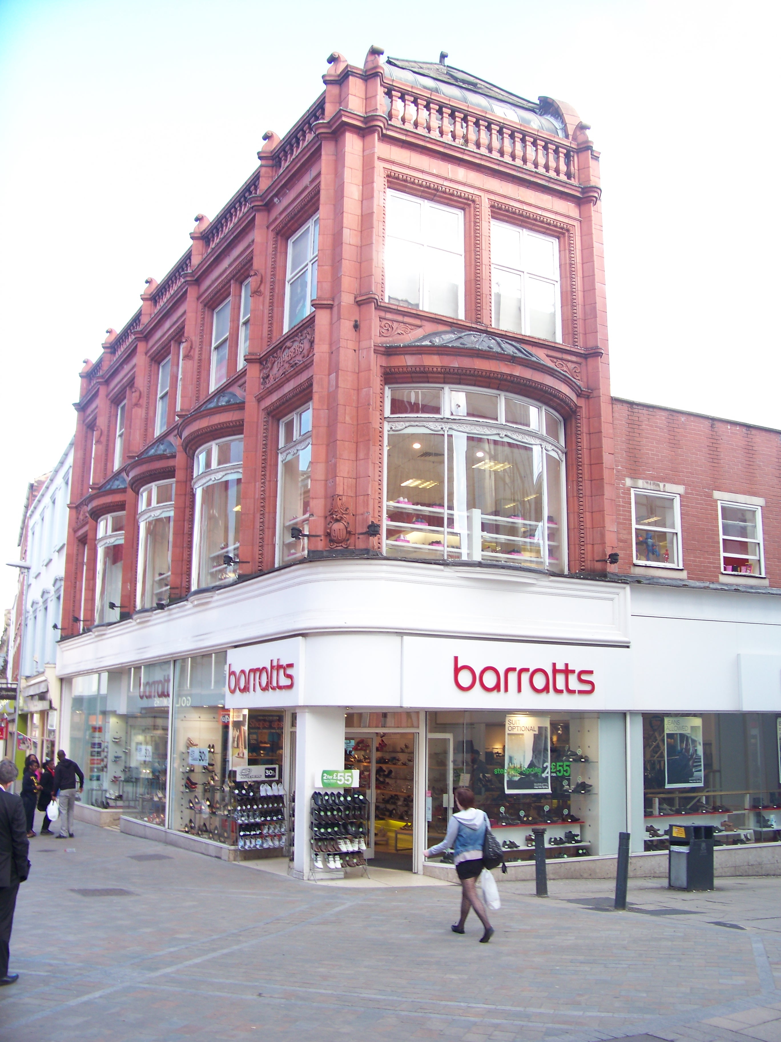 Barratts, Commercial Street, Leeds. Taken on the afternoon of Monday the 11th of April 2011.